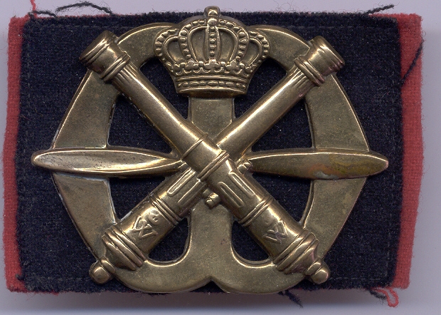 Baret Badge Luchtdoelartillerie